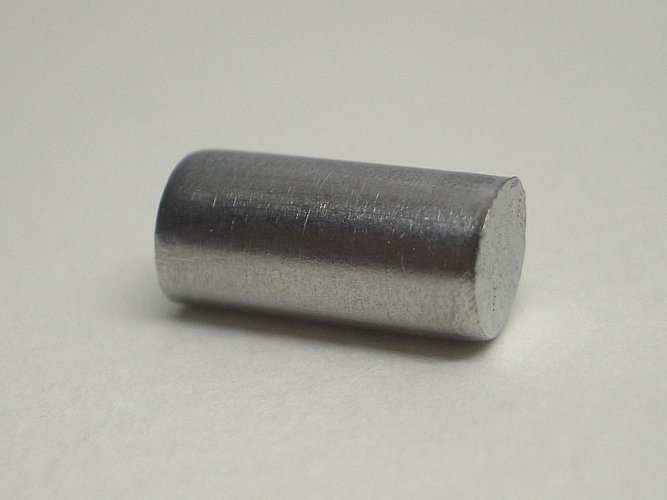 Zirconium metal rod